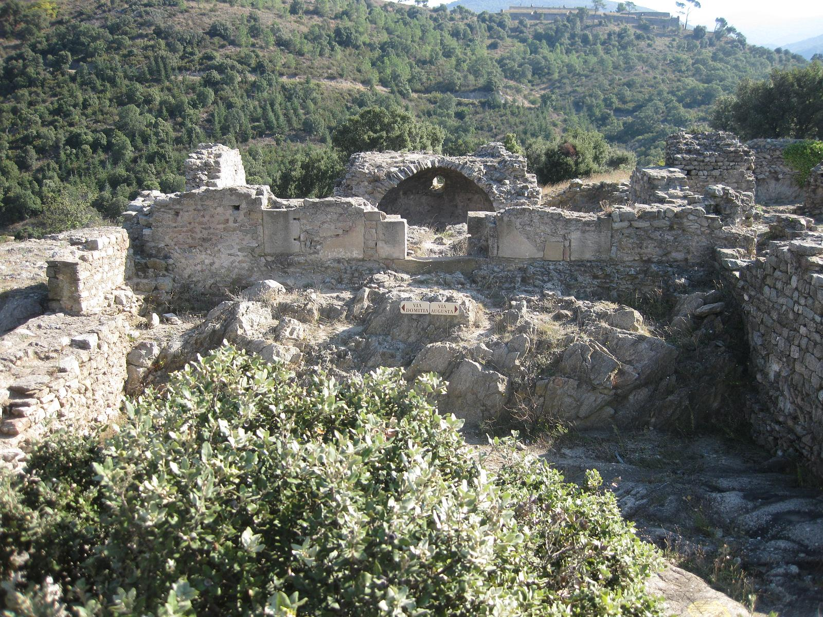 The ruins of the benedictine priory of Panissars in the municipality of La Jonquera in the province of Girona, Catalonia (Spain).